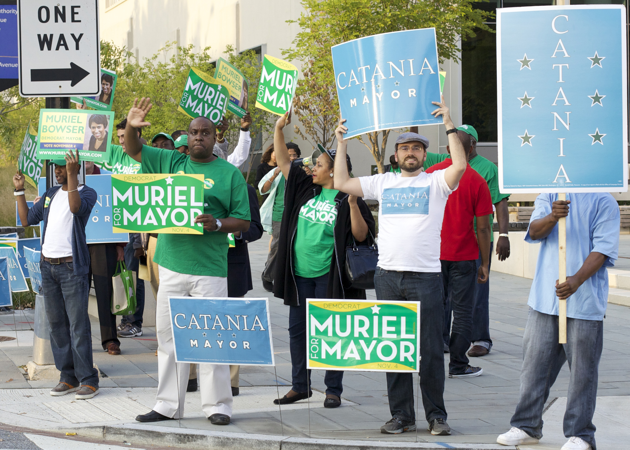 Make an informed decision about elections in D.C., Maryland and Virginia. Compare candidates with WAMU's Voter Guide. Go to: Photo credit: Anthony Washington/WAMU. Photo caption: Supporters of D.C. mayoral candidates rally outside NPR headquarters in Washington before the WAMU mayoral debate on Oct. 2, 2014, featuring Democrat Muriel Bowser and independents David Catania and Carol Schwartz.